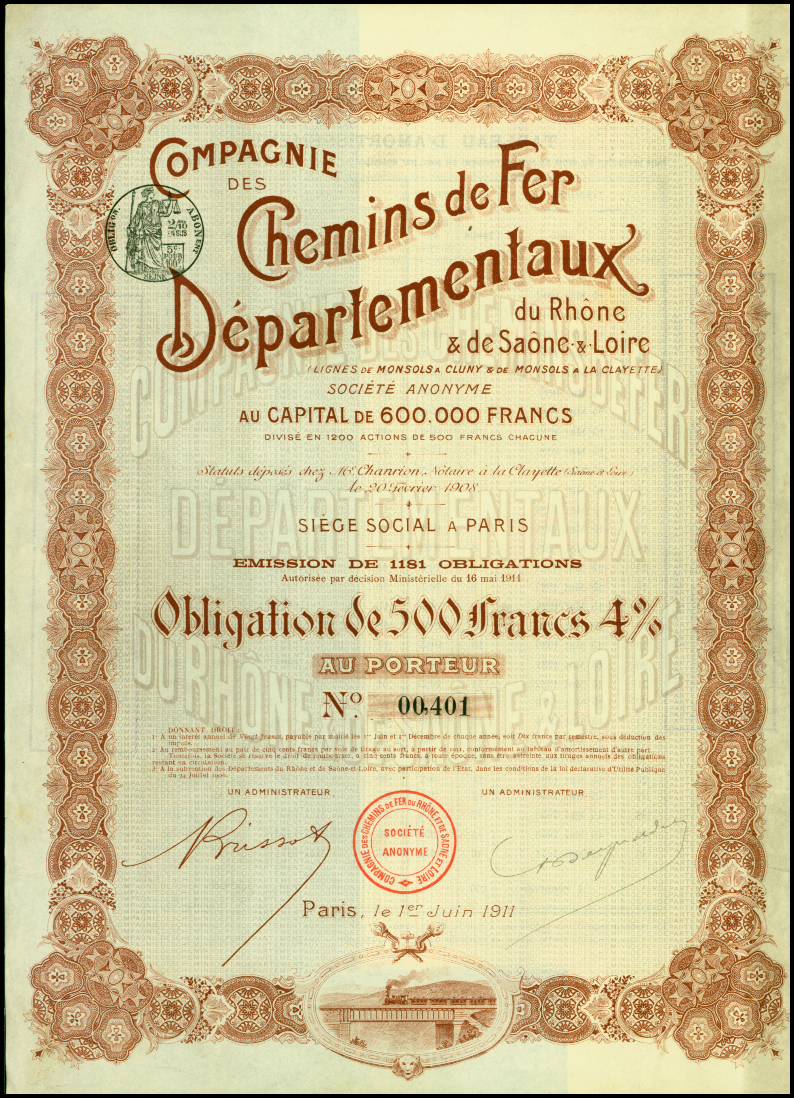 Bond of the Compagnie des chemins de fer départementaux du Rhône et de Saône et Loire, issued 1. June 1911